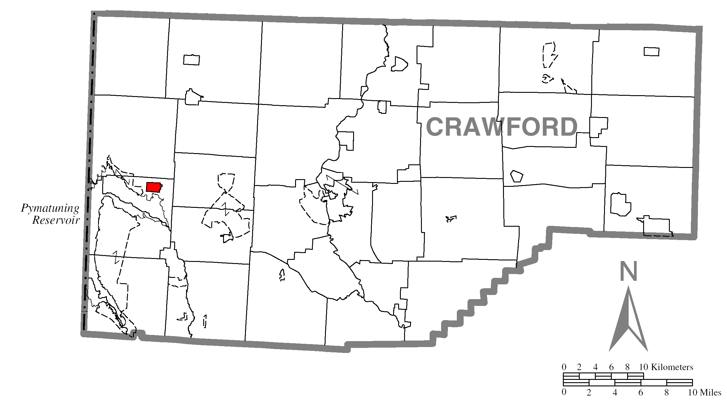 Map of Crawford County higlighting Linesville.